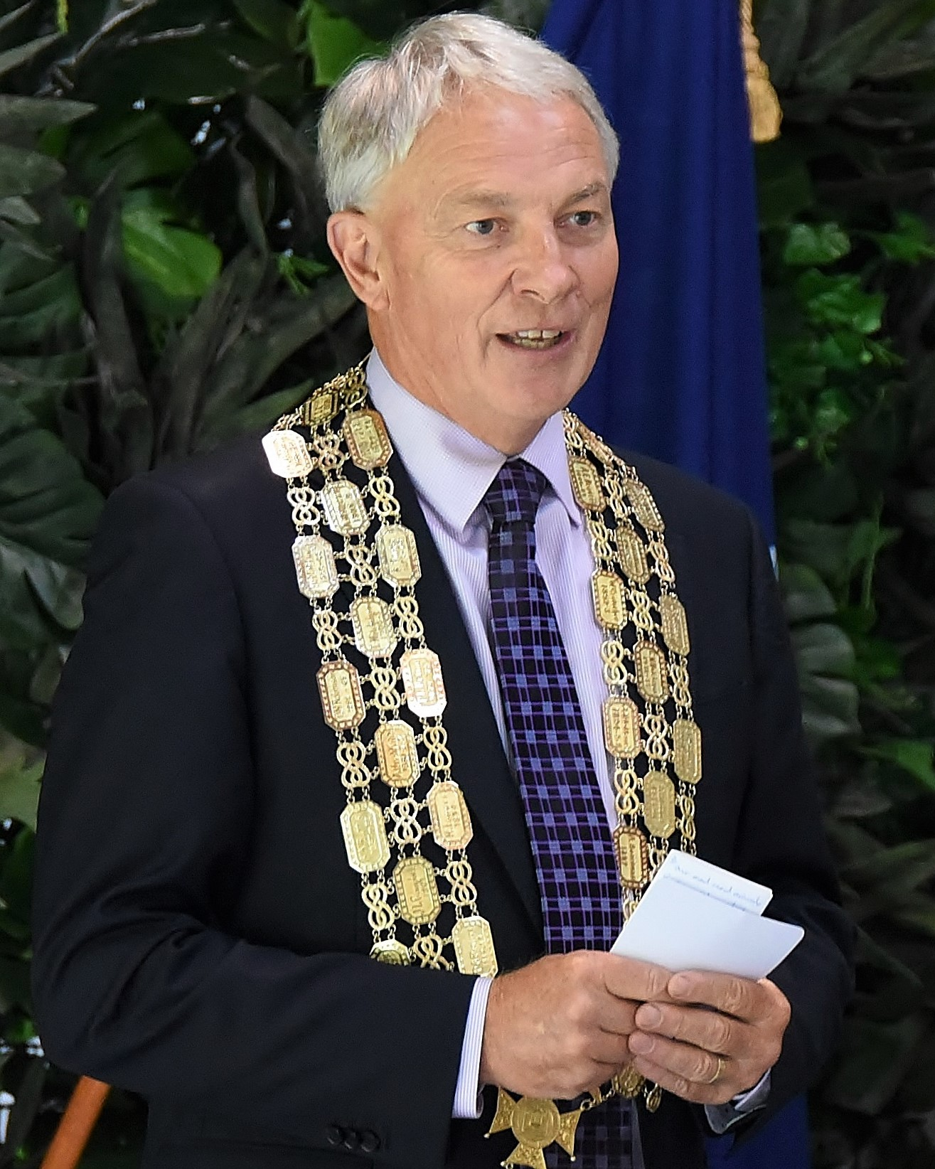 Mayor of Auckland Phil Goff